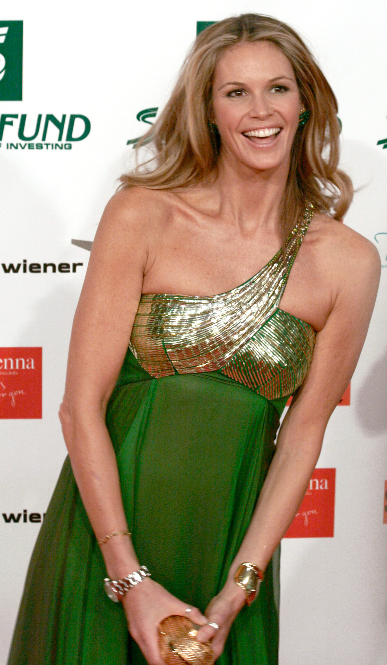 Elle Macpherson at the Women's World Award 2009 (Wiener Stadthalle, Vienna, Austria).